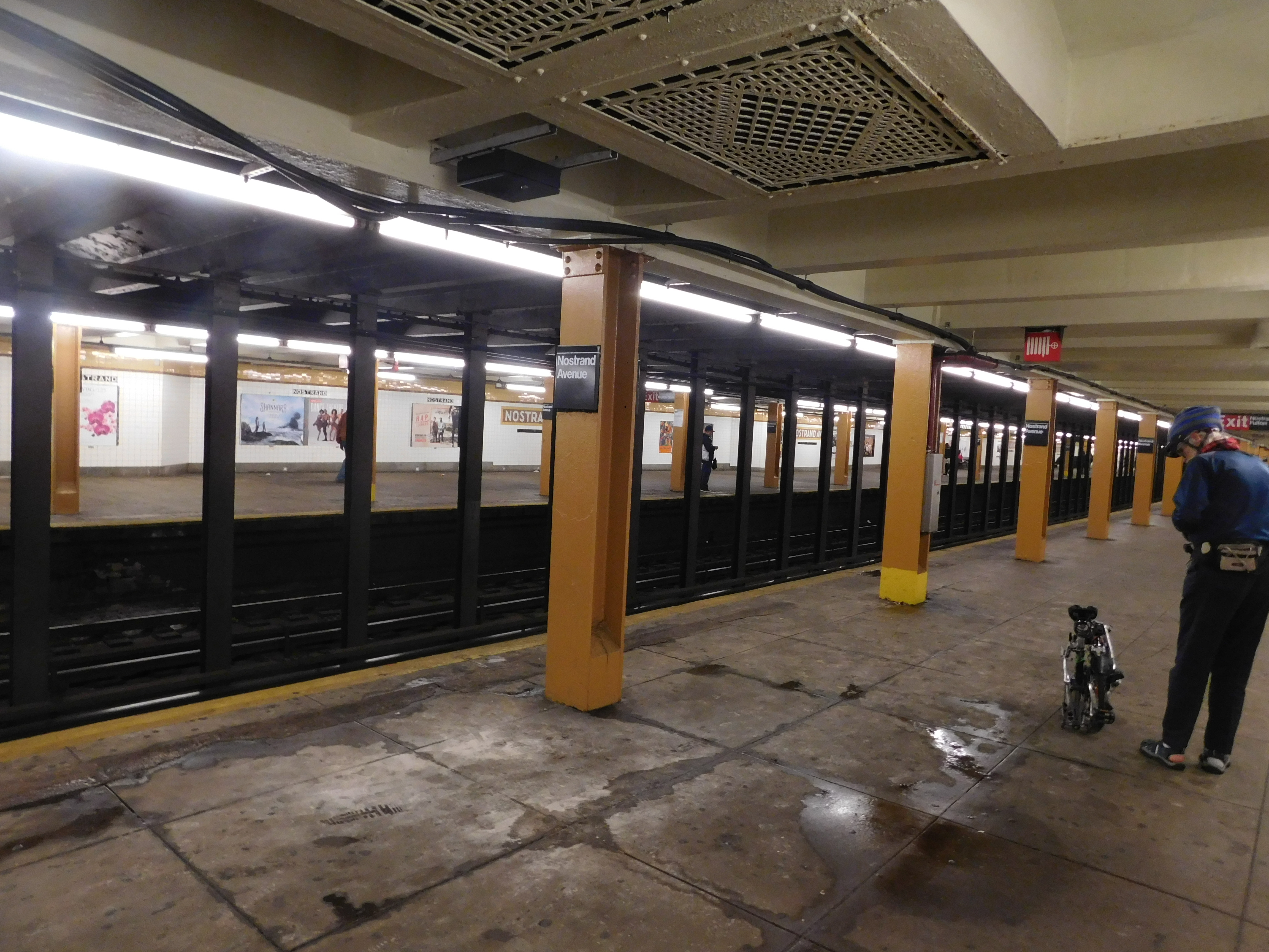 Brooklyn, New York